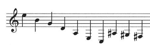 The tuning a 10-string guitar, according to Narciso Yepes.